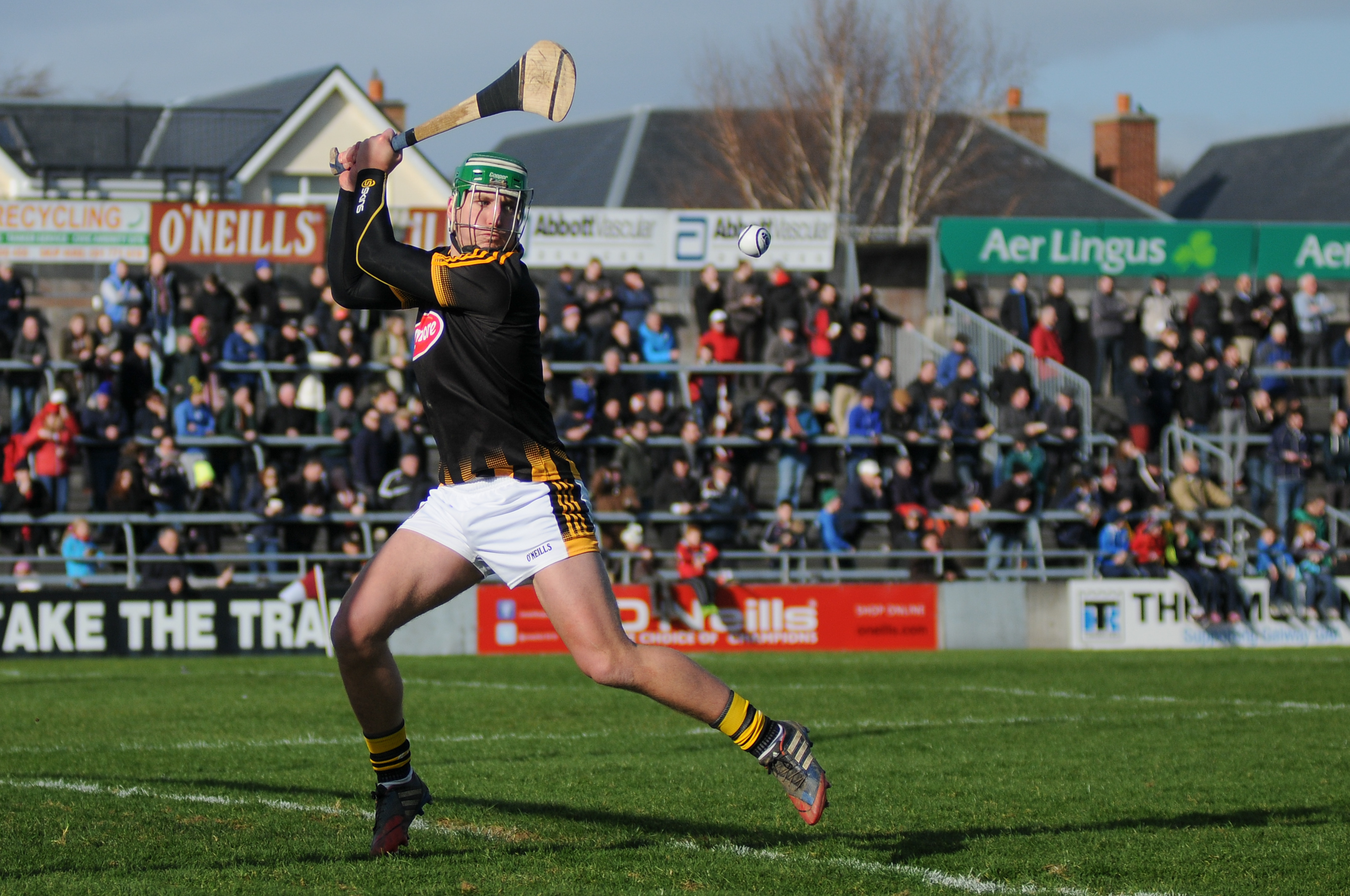 Eoin Murphy in action for Kilkenny against Galway in the 2015 National Hurling League at Pearse Stadium